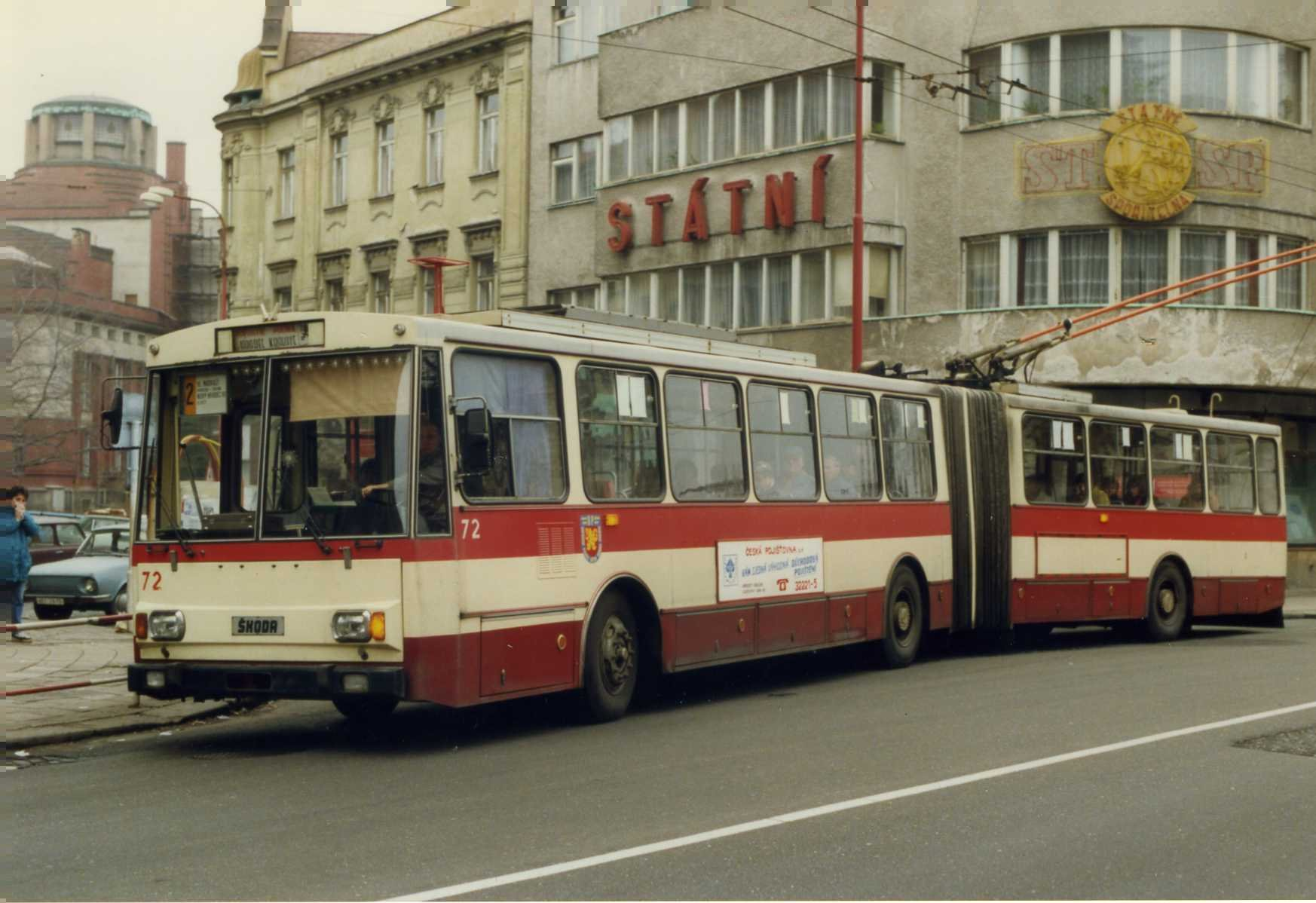 Škoda 15Tr trolleybus in Hradec Králové, Czech Republic, 1992